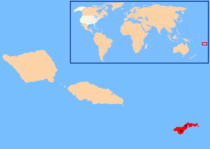 Map of Catholic Dioceses of Samoa-Pago Pago in American Samoa USA.